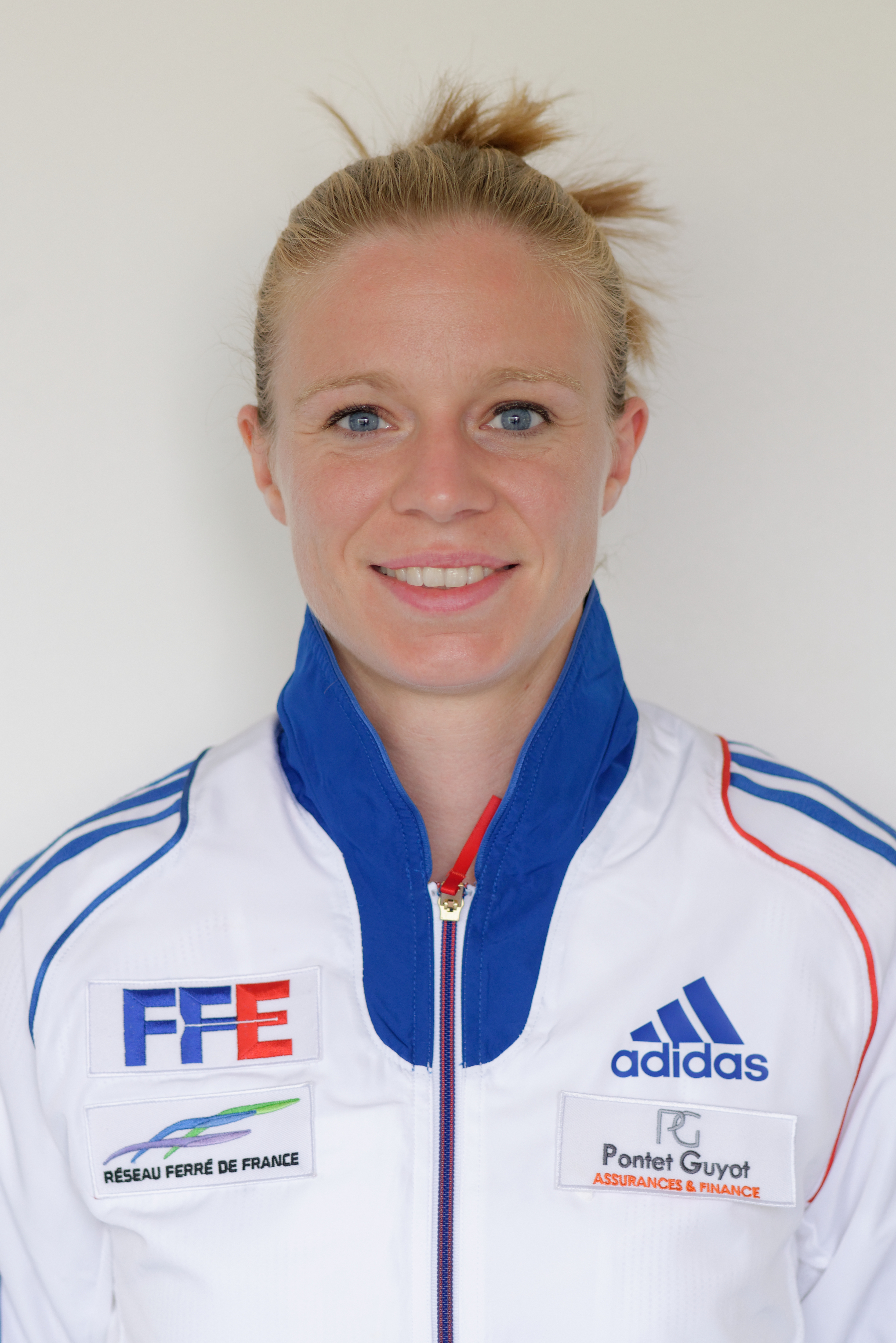 Foil fencer Astrid Guyart at a press conference held by the French Fencing Federation on Thursday July 25th 2013 in Paris.